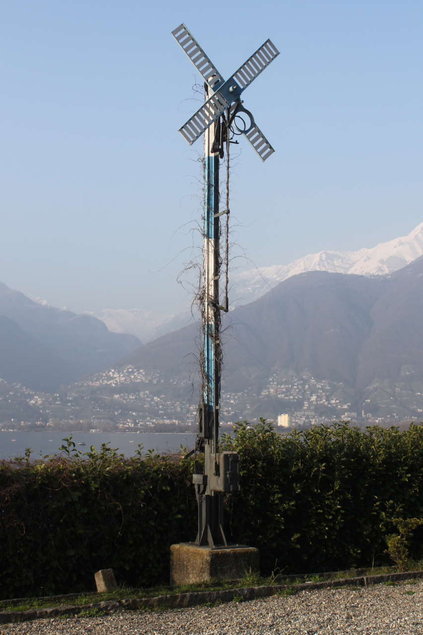 Old shunting signal on display at Magadino-Vira station.